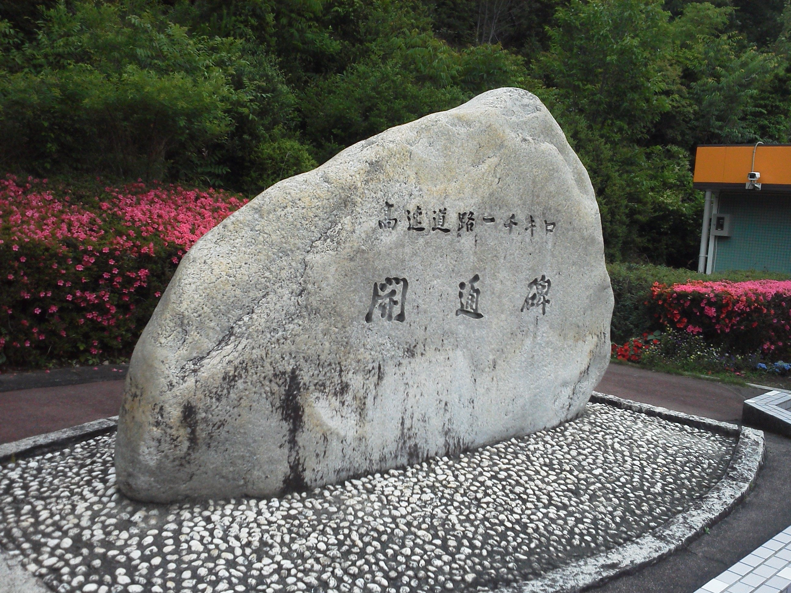 Expressway 1,000km completion monument（at the Kokei-zan P.A.）